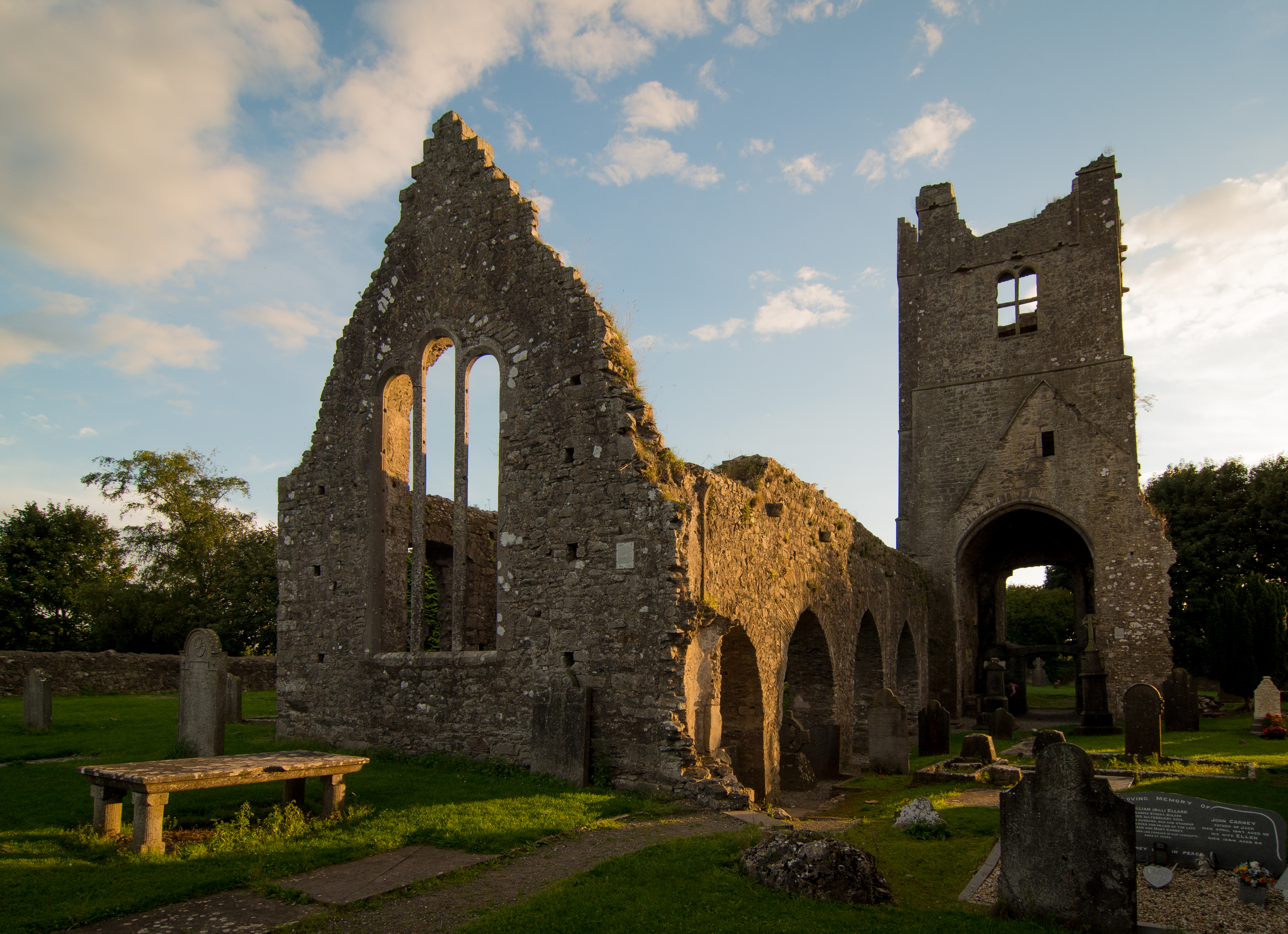 St. Mary's Abbey is a large 12th century church in Duleek, Co. Meath. It lies next to the later St. Cianan's Church, and close by the 5th century stone church after which the town is named. In a ruined state, it contains one of the original high crosses associated with the earlier church, and bears the scar of a now-disappeard round tower, into which the church tower was built.